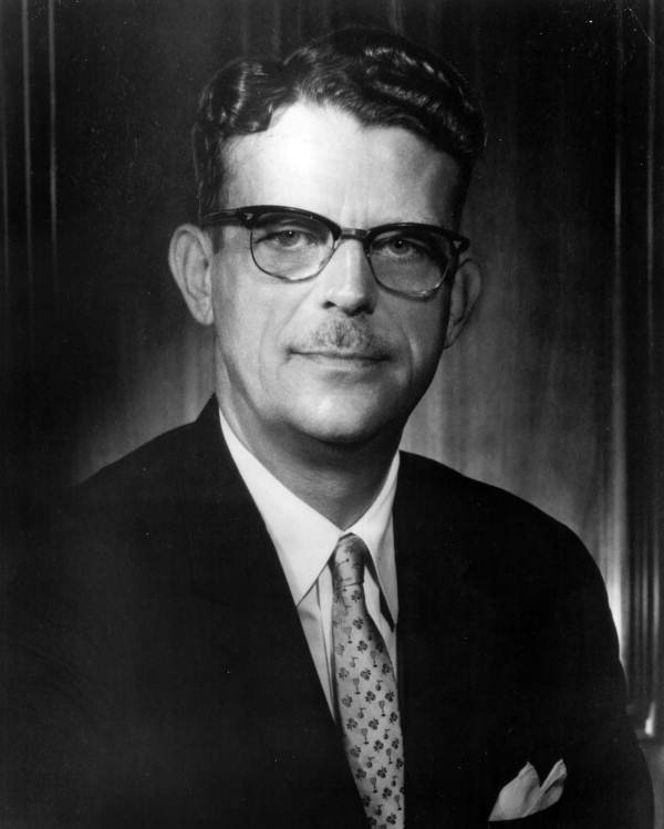 Portrait of Florida Council of 100 chairman Benjamin H. Oehlert Jr.